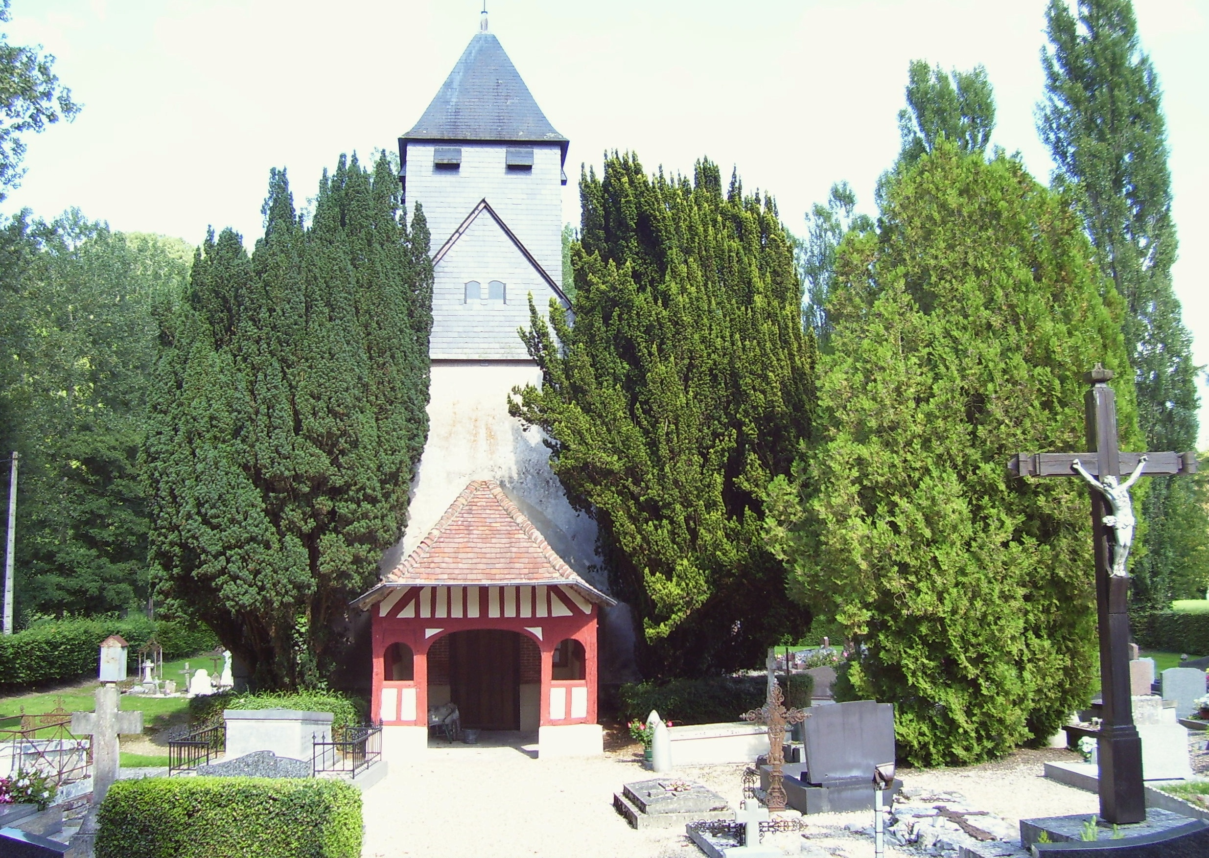 The church Notre-Dame of Livet-sur-Authou (Eure, France).